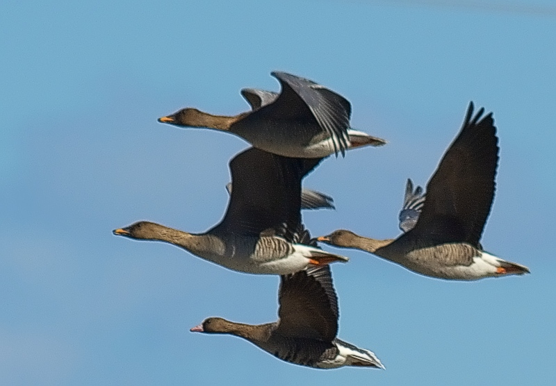 Three Anser fabalis and one Anser albifrons, Falkenberg, Halland, Sweden.